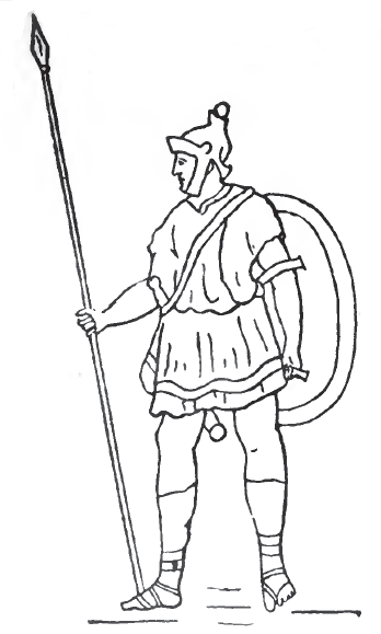 Spanish soldier of the army of Hannibal, as printed in Theodore Ayrault Dodge's A HISTORY OF THE ART OF WAR AMONG THE CARTHAGINIANS AND ROMANS DOWN TO THE BATTLE OF PYDNA, 168 B. C., WITH A DETAILED ACCOUNT OF THE SECOND PUNIC WAR Houghton Mifflin Company, Boston & New York (1891). Hand scanned.